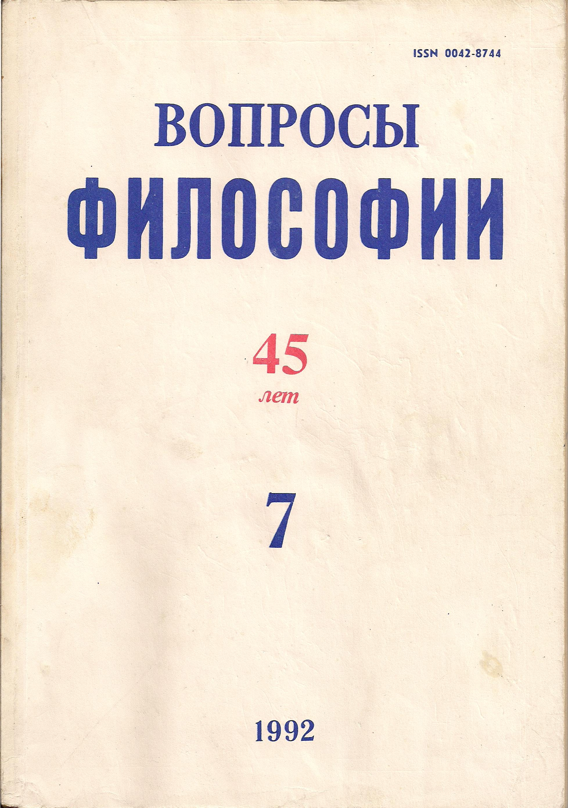 The first jubilee issue of the journal "Voprosy Filosofii" ("Questions of Philosophy") in post-Soviet Russia